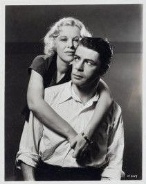 Vintage photos from the film I Am a Fugitive from a Chain Gang (1932) featuring Paul Muni and Glenda Farrell.